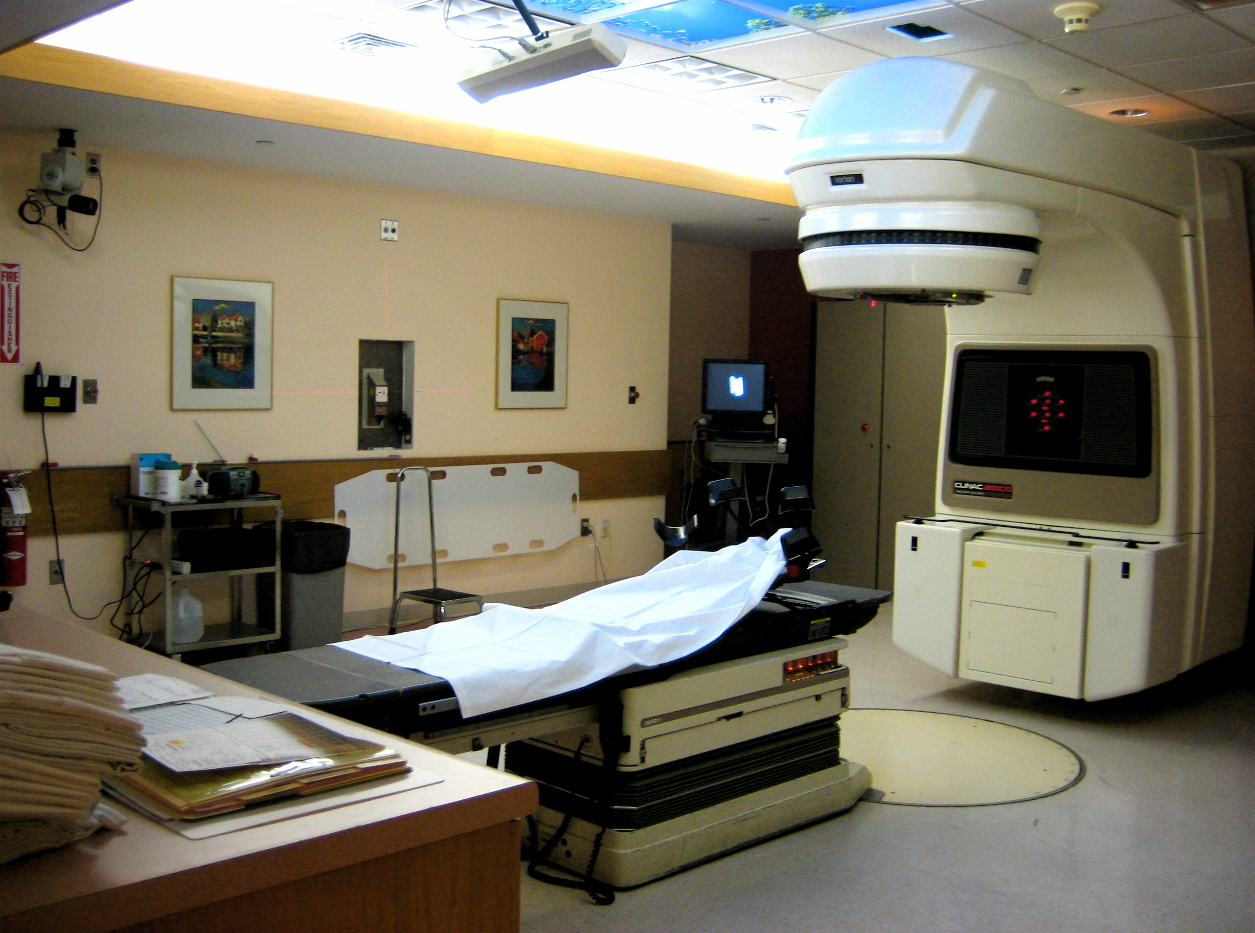 First look at the radiation machine, which doesn't look all that threatening. It makes different noises from the other machines, however.